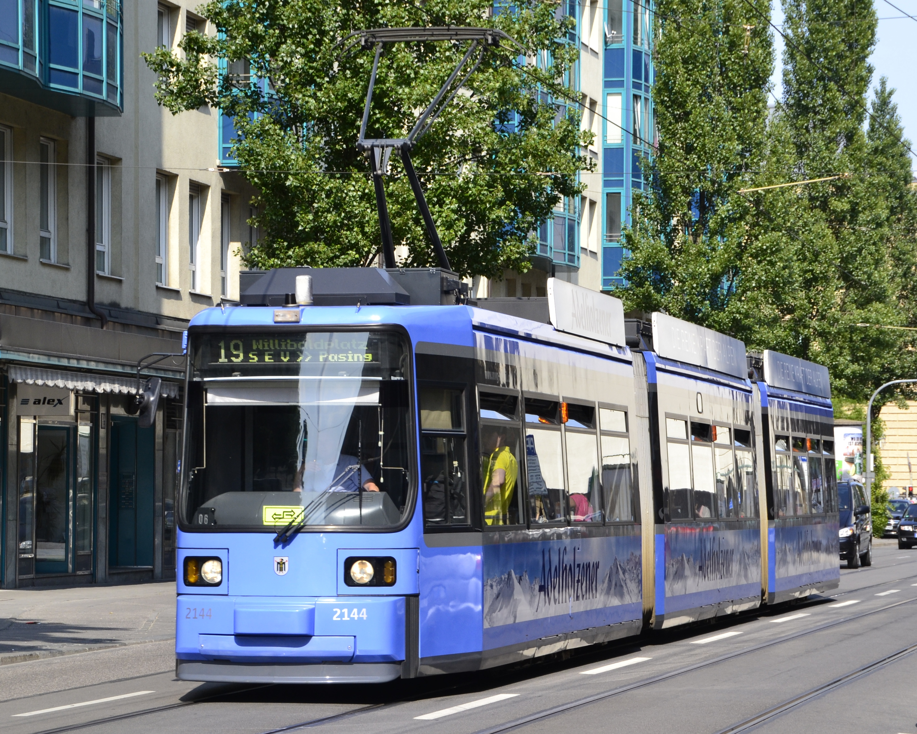 Adtranz GT6N-tram (line 19) in Munich.